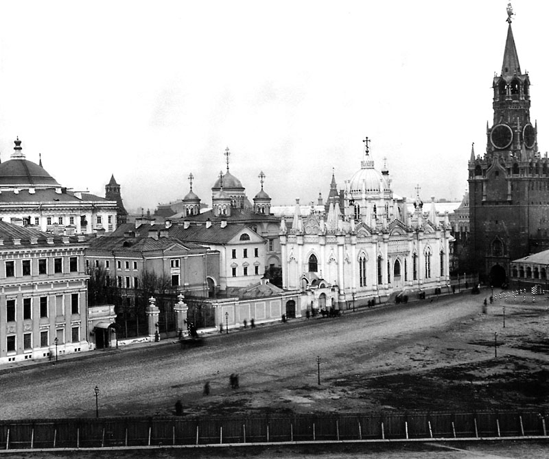 Moscow Kremlin. Voznesenskaya Square (all demolished)